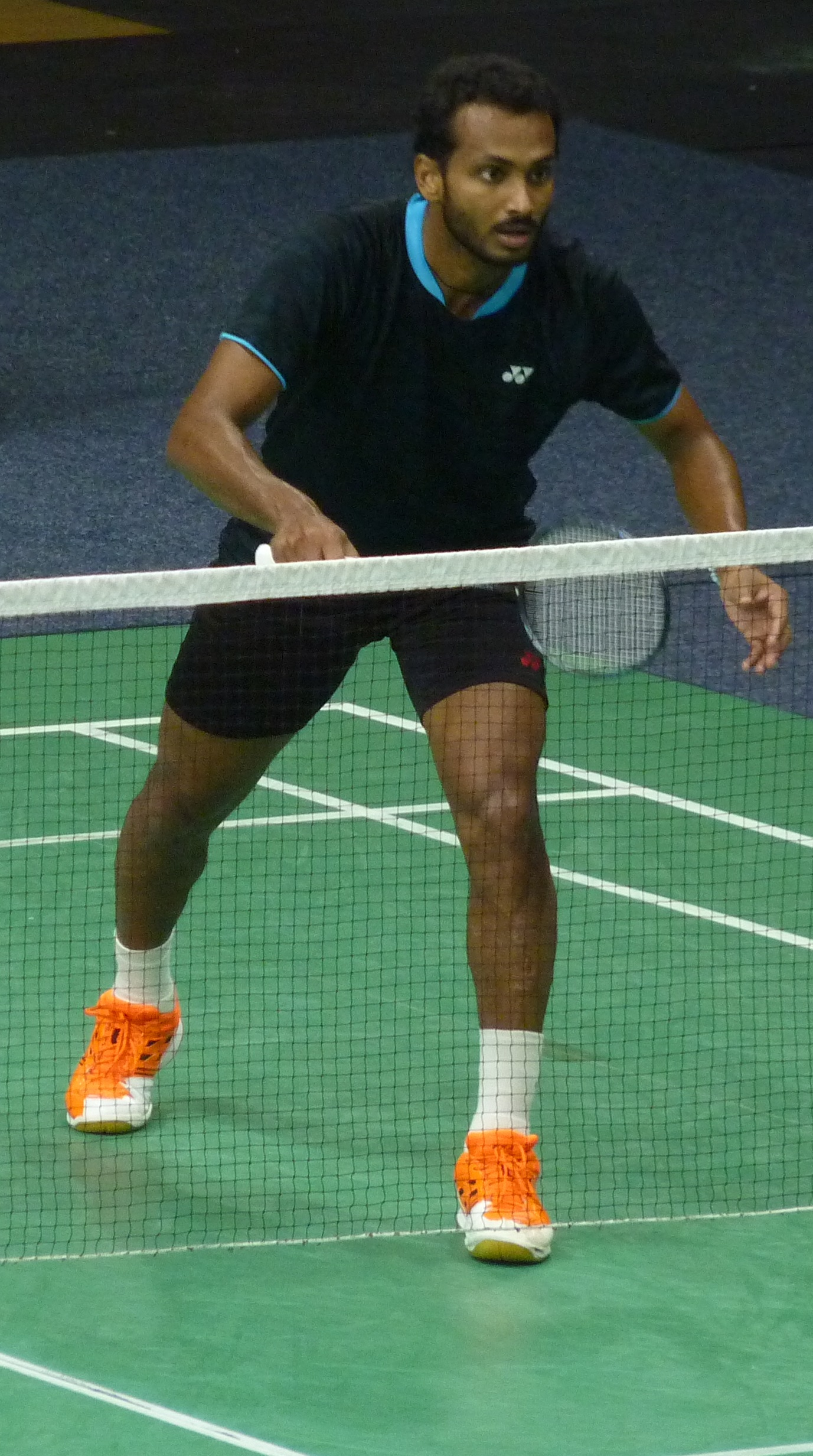 Niluka Karunaratne (Sri Lanka)